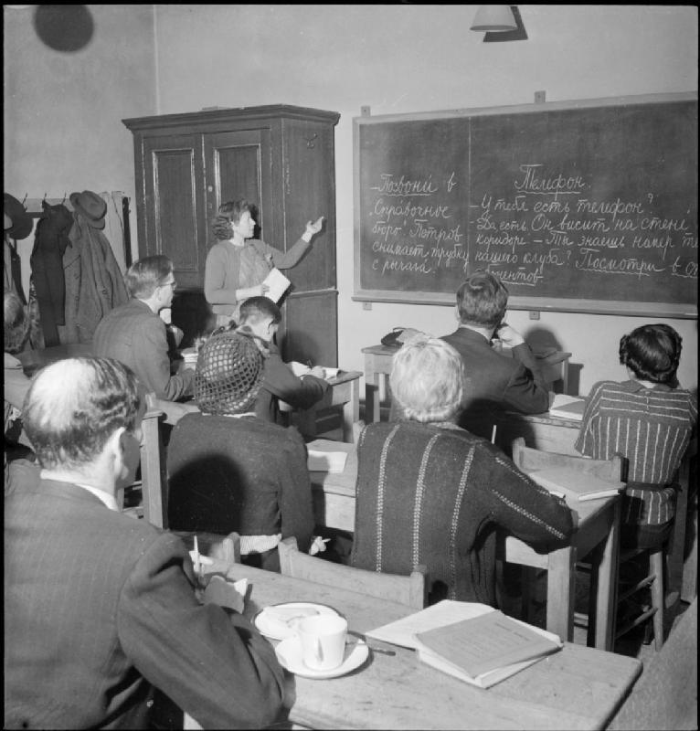 Morley College in Wartime- Everyday Life at Morley College, Westminster Bridge Road, London, England, UK, 1944 Students of all ages sit at rows of desks to during a lesson in Russian at Morley College. The lecturer is drawing the attention of the class to the sentences she has chalked on the blackboard.